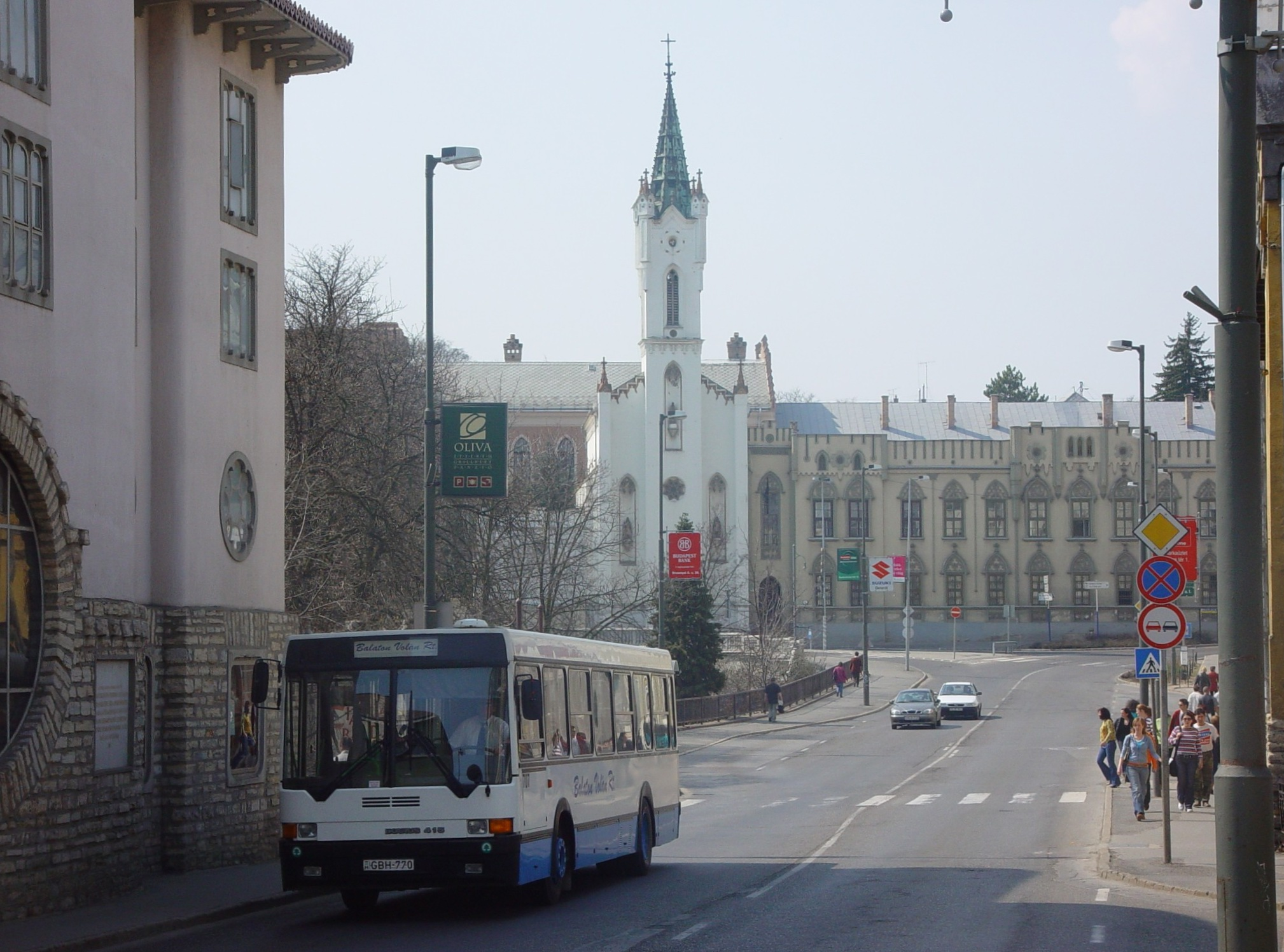 Church and school of the 'English ladies'